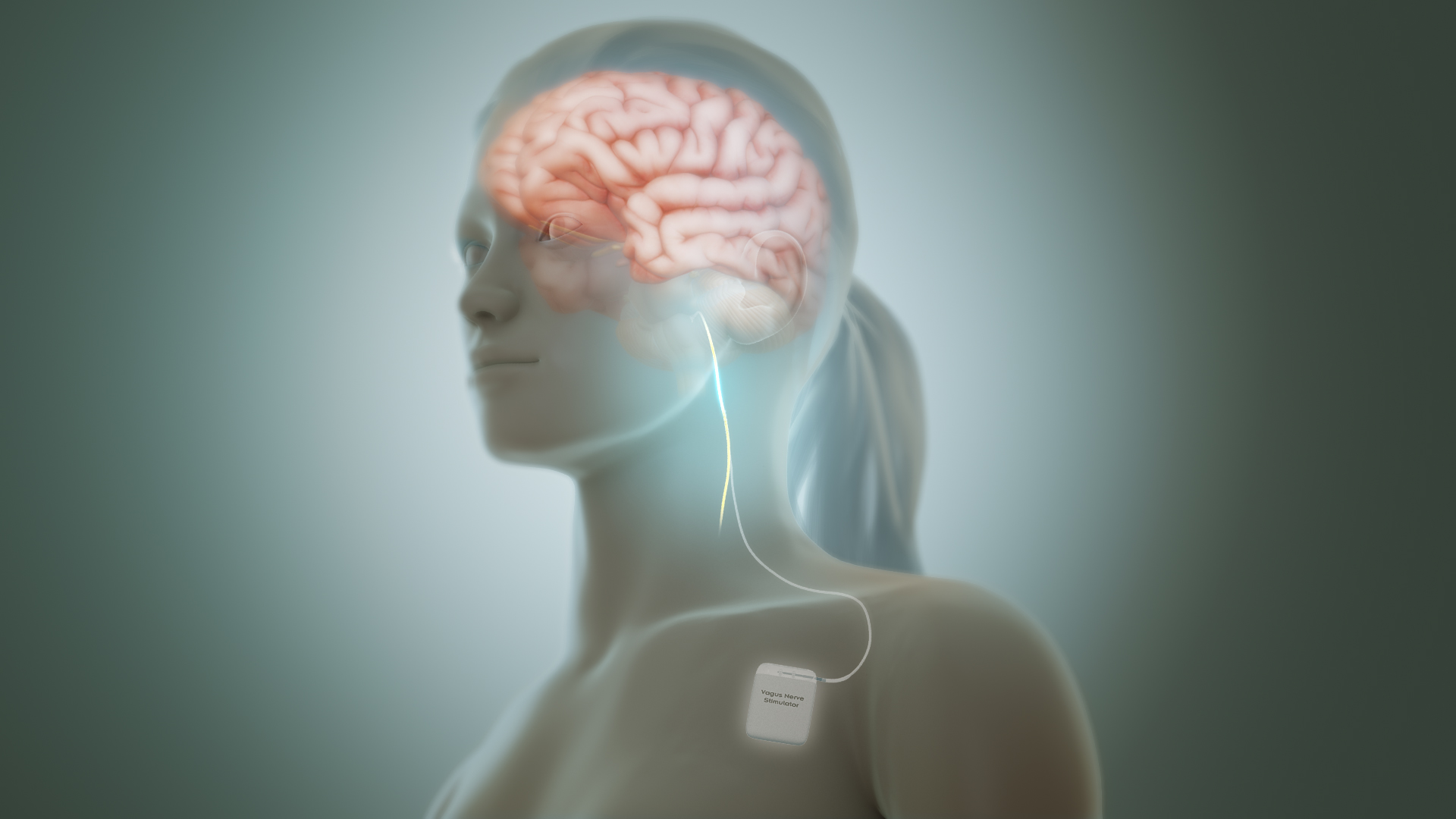 Process of medically stimulating vagus nerve.